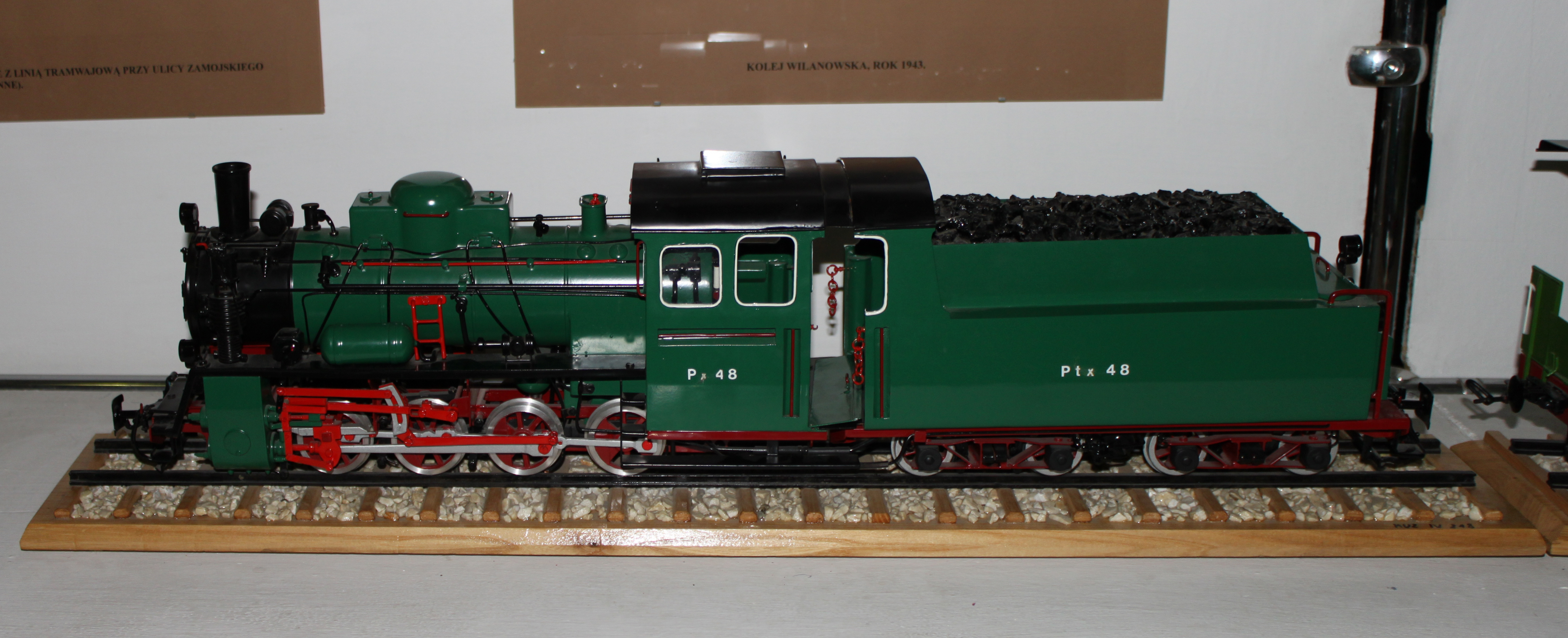 Px48 model, Muzeum Kolejnictwa in Warsaw.